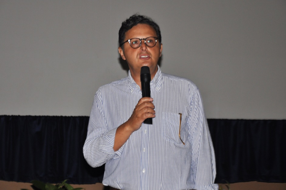 Giacomo Scarpelli speech at Casiglioncello (Livorno, Italy)